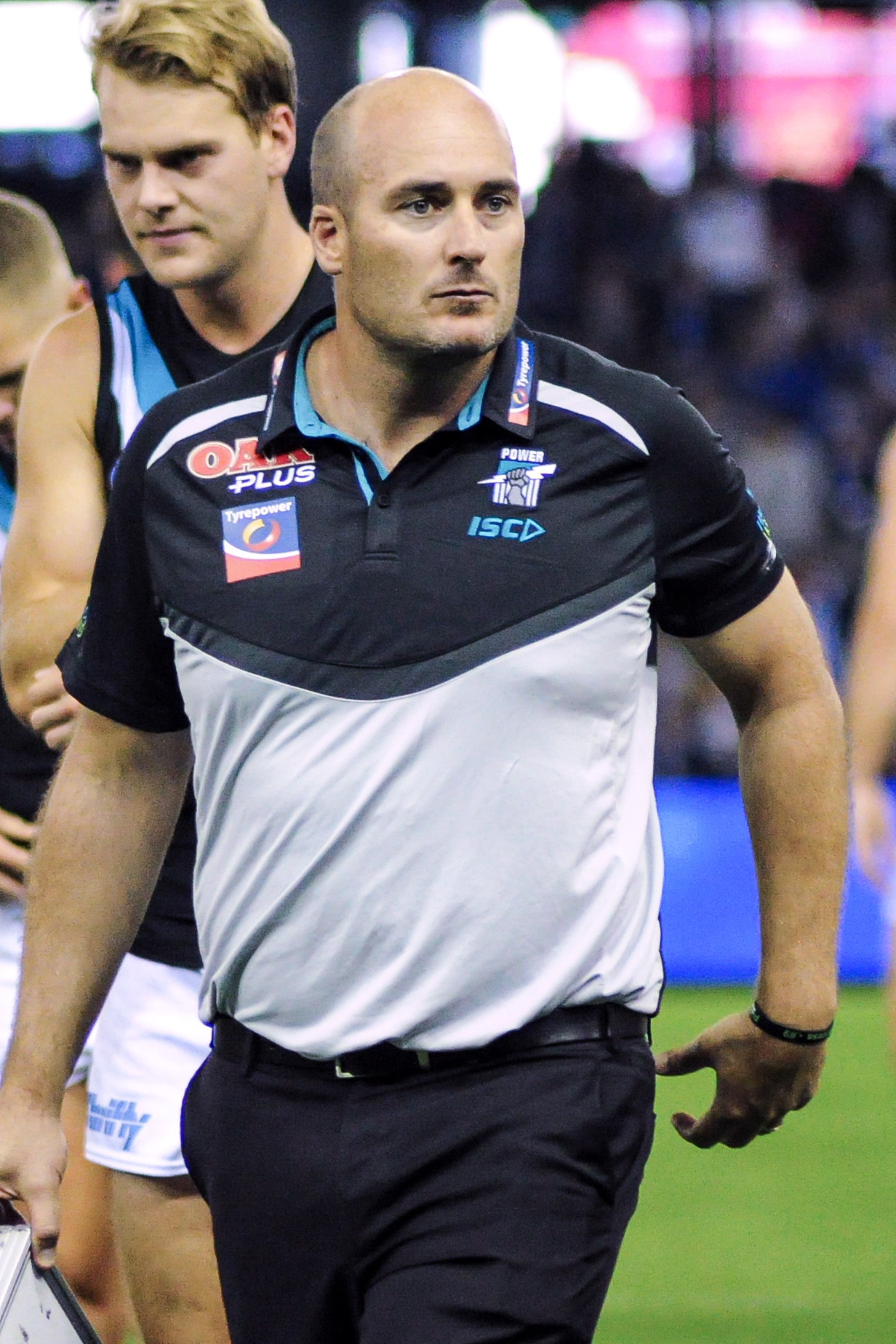 Matthew Lokan during the AFL round six match between North Melbourne and Port Adelaide on Saturday, 28 April 2018 at Etihad Stadium in Melbourne, Victoria.